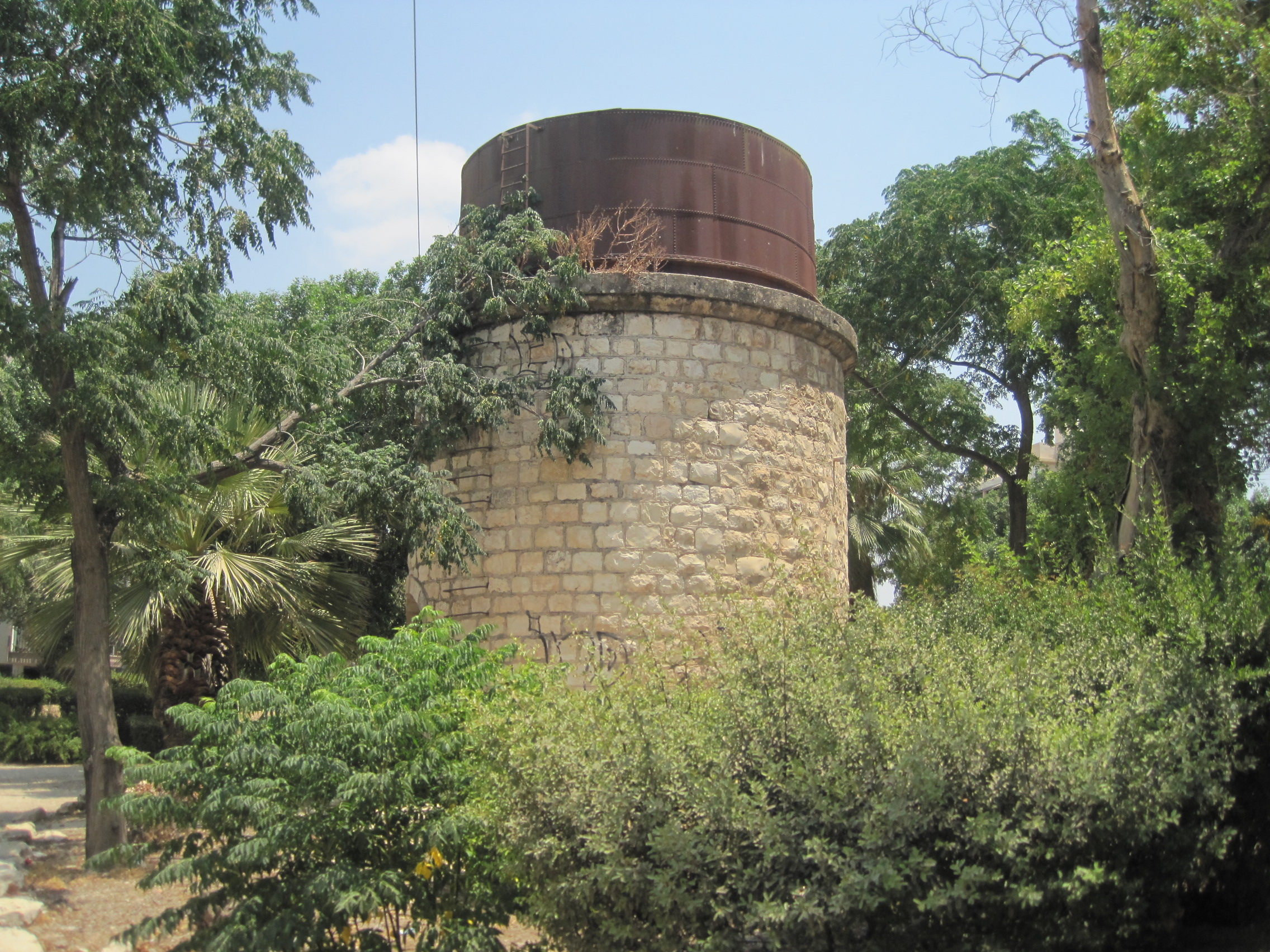 This image was taken as part of the Elef Millim project trip to the town of Afula in the Jezreel Valley, which was held on Friday, 27th July 2012. To view all images uploaded as part of the Elef Millim Project